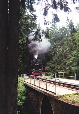 Train with steam locomotive on the way to the top of the mountain Brocken near the bridge in Eckerloch. Source: Photo taken by Marian Szengel, originally uploaded to Bild:Brockenbahn.jpeg by Benutzer:MarianSz 12:06, 2. Feb 2003 . . MarianSz . . 276 x 400 (26127 Byte) (Dampflok am Brocken)